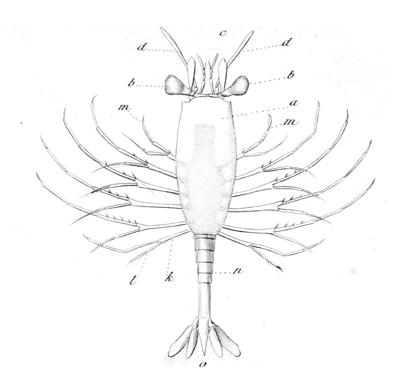 Dorsal view of Amphionides reynaudii larvae (Crustacea: Amphionidacea).